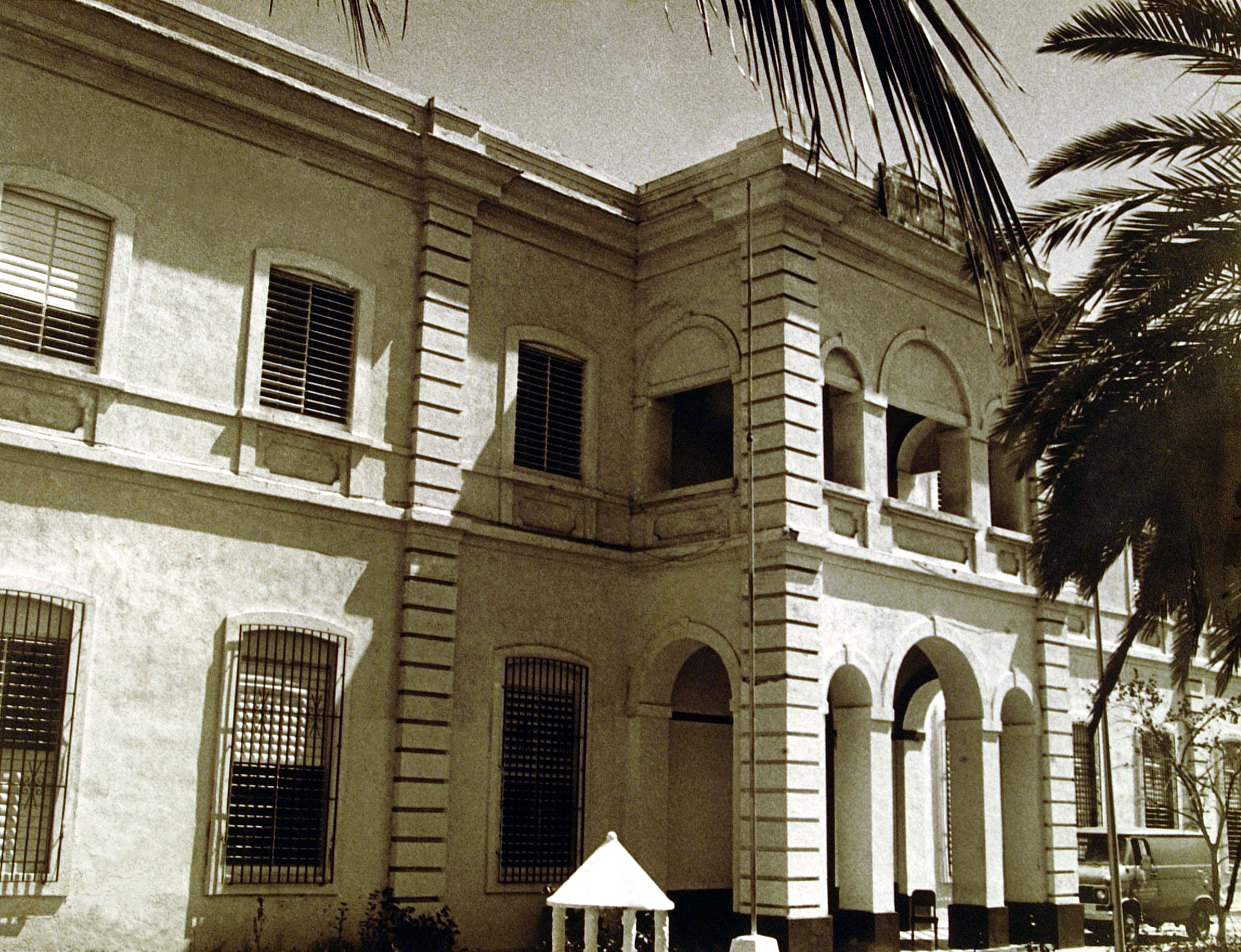 First building of the College of the Sacred Heart in Miramar, Santurce, San Juan, Puerto Rico.